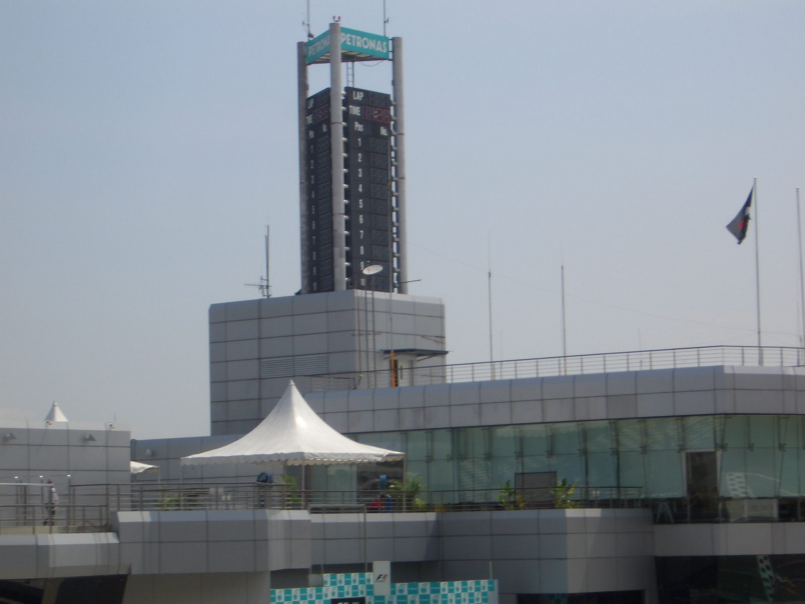 Picture taken: 18 March 2006 Formula One Practice session 3, Malaysian Grand Prix, Sepang